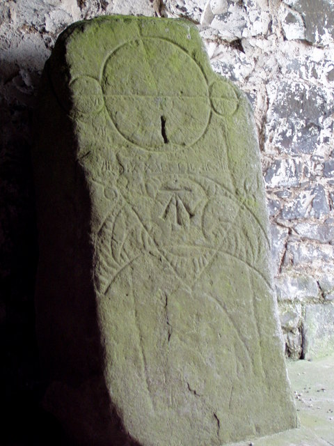 Lindores Pictish Symbol Stone